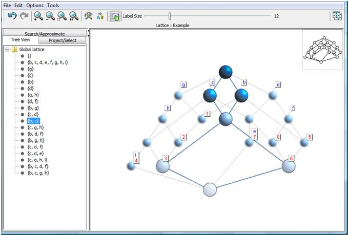 Concept Lattice in LatticeMiner tool